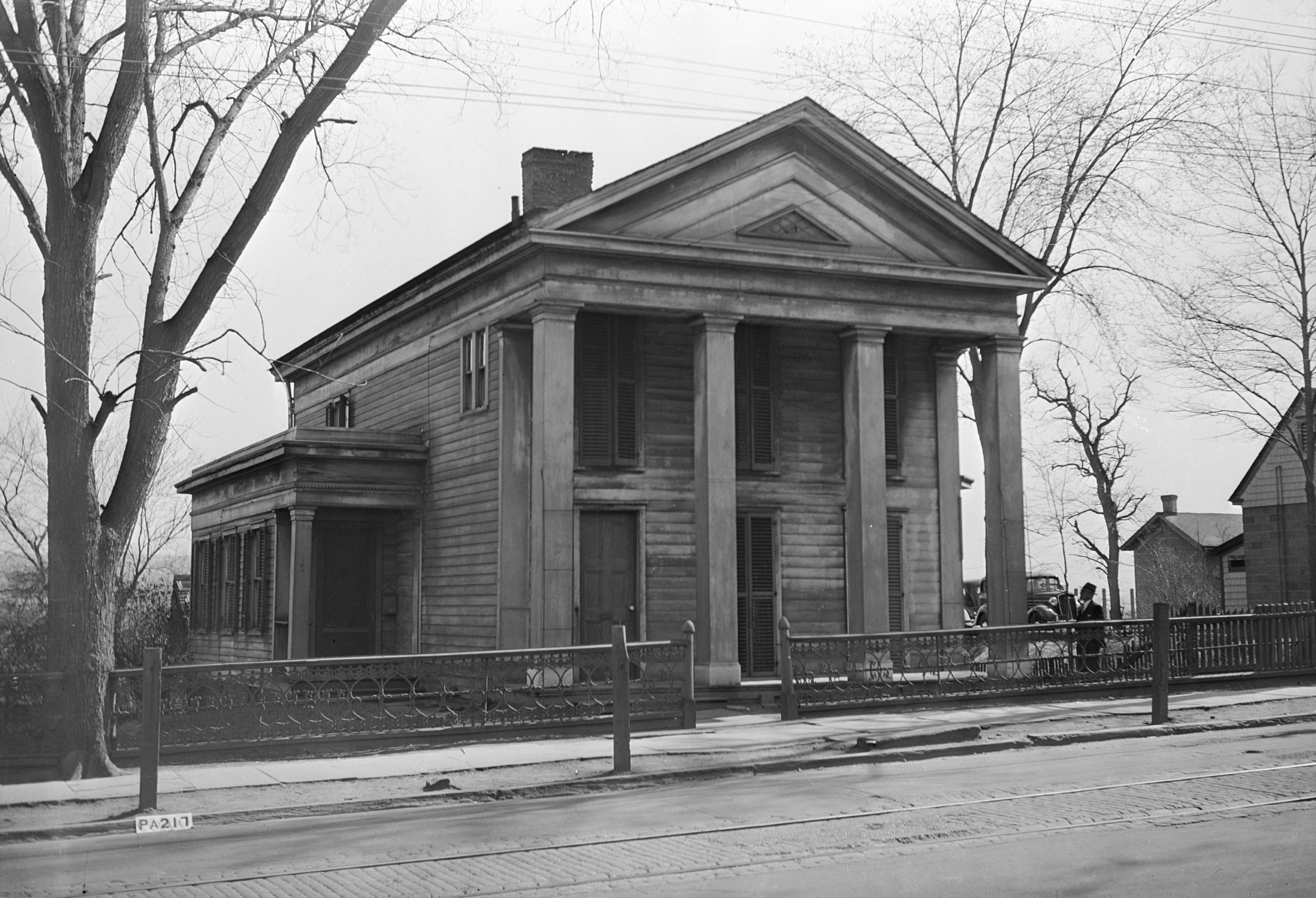 Front of the Silkman House, located at 2006 N. Main Avenue in Scranton, Pennsylvania, United States. Built in 1840, it is listed on the National Register of Historic Places.